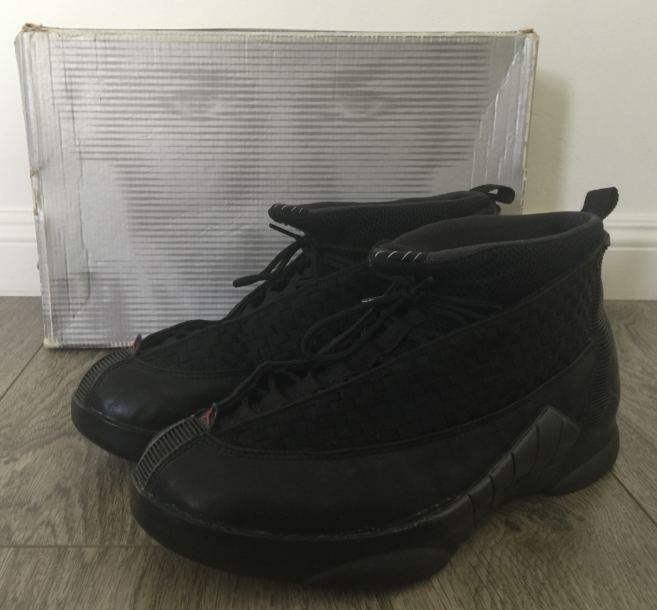 Nike Air Jordan XV